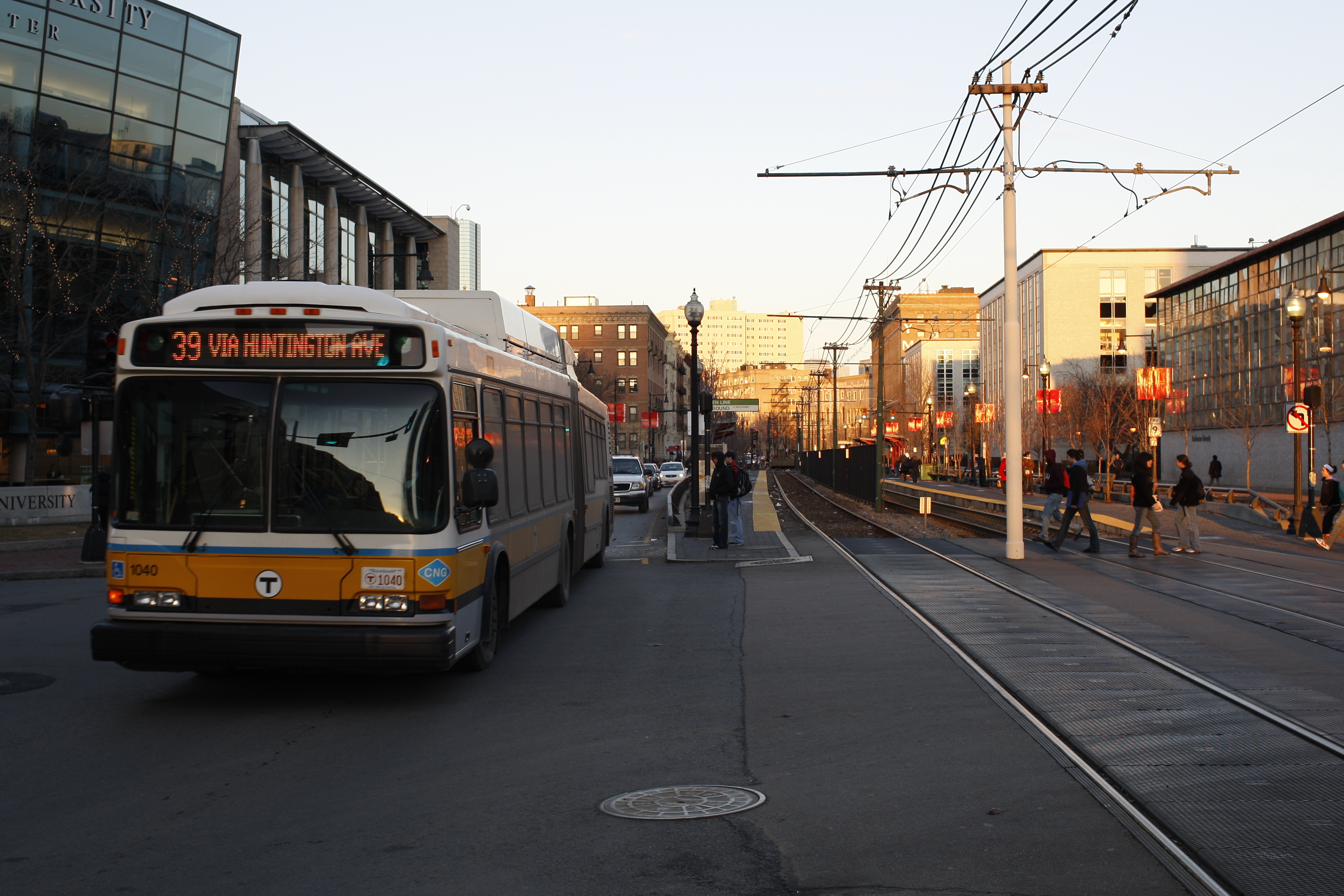 A #39 MBTA bus outbound at Northeastern station